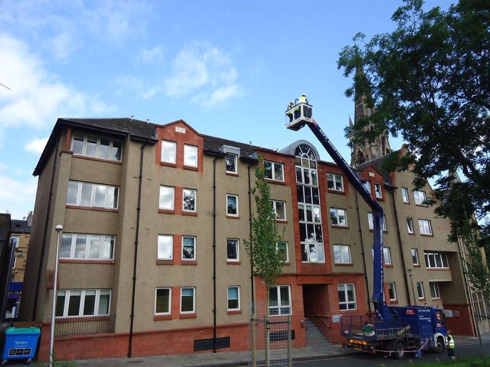 Photo of 34 Wright's Houses, part of Edinburgh Student Housing Co-operative, during a roof inspection using a cherry picker.